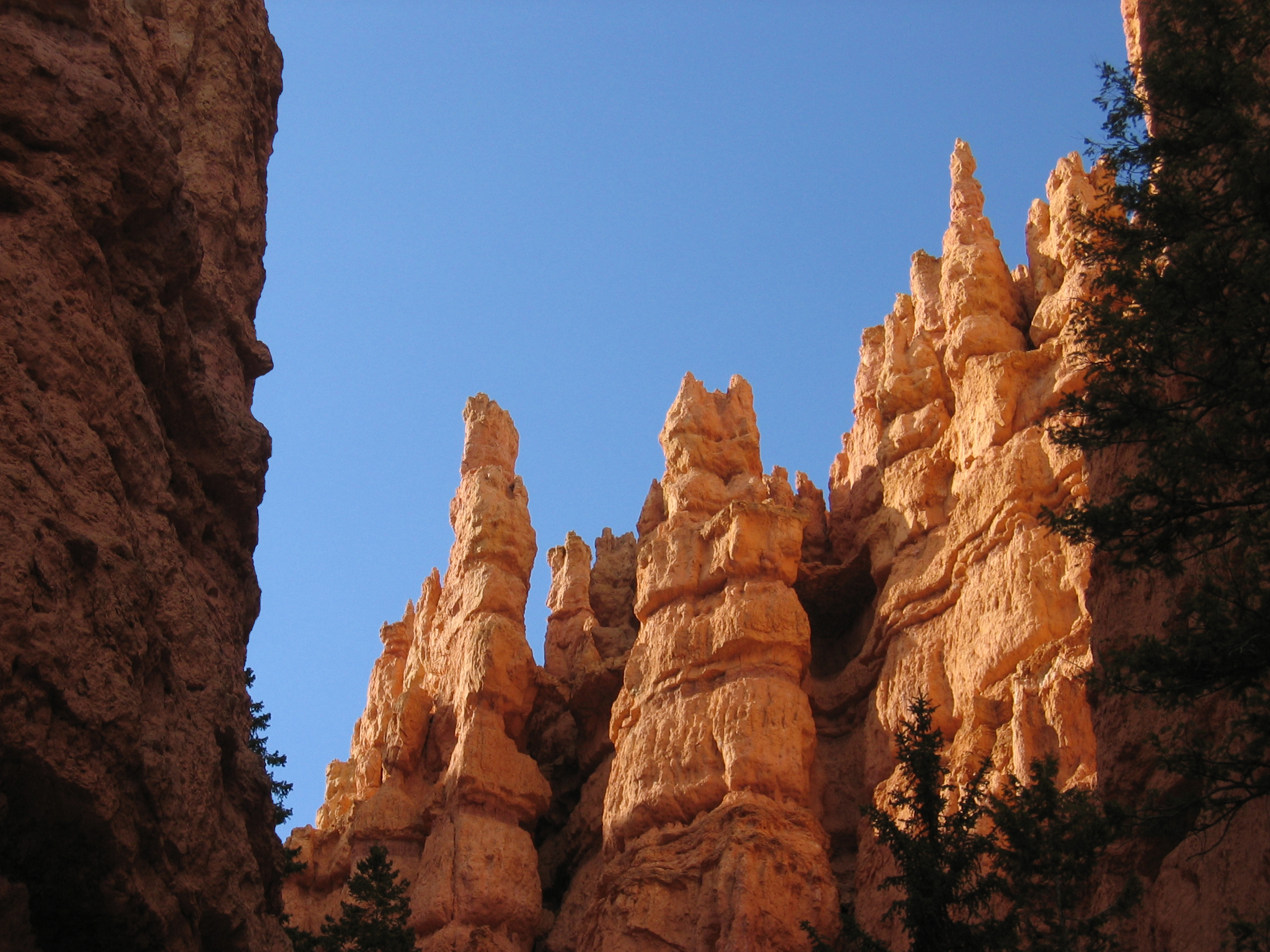 Photo of Hoodoos at sunset in Bryce Canyon National Park, Utah, USA.